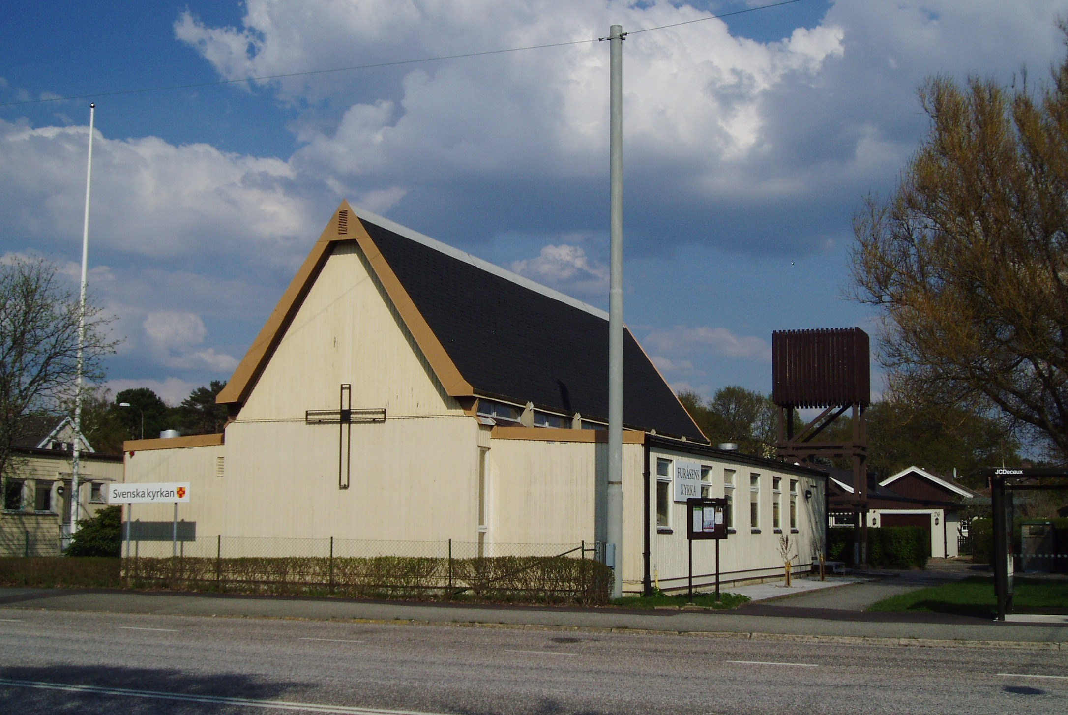 Furåsens kyrka, church in Gothenburg